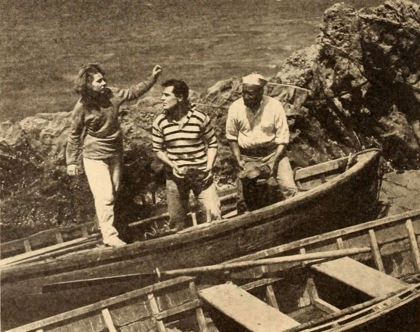 Still from episode 1 of the American film serial The Veiled Mystery (1920) with Pauline Curley, Antonio Moreno, and an unidentified actor, on page 90 of the August 28, 1920 Exhibitors Herald.